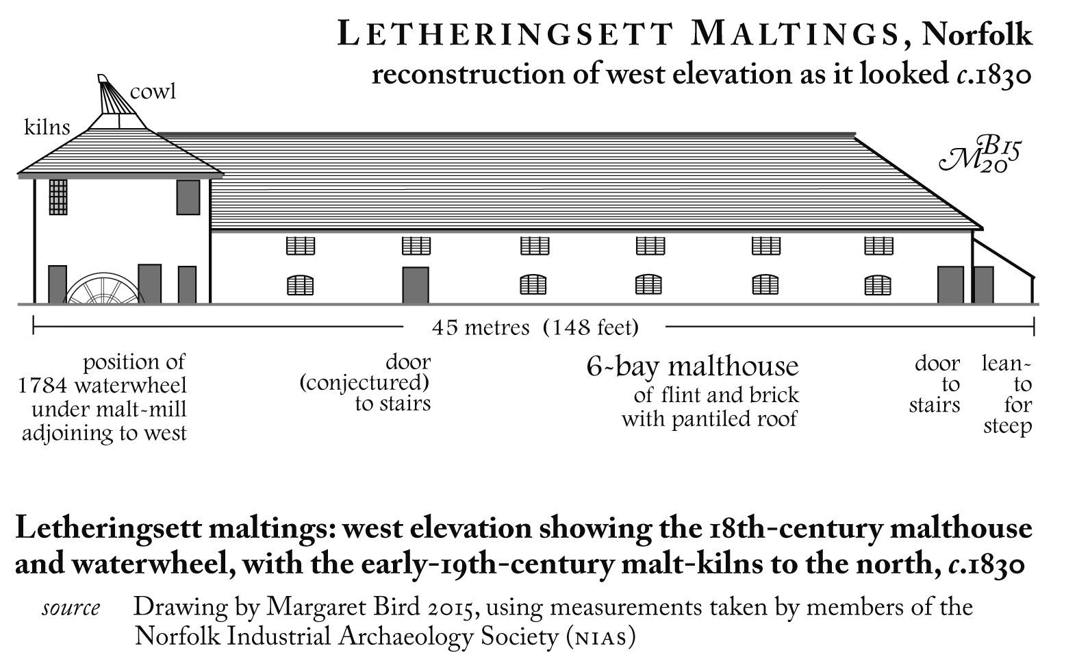 Letheringsett Maltings, Norfolk, England: a reconstruction of the 18th-century west front with the early-19th-century malt-kilns, as they would have looked c.1830; the waterwheel for the Letheringsett Brewery Watermill is shown in position. Measurements taken by members of the Norfolk Industrial Archaeology Society (NIAS).